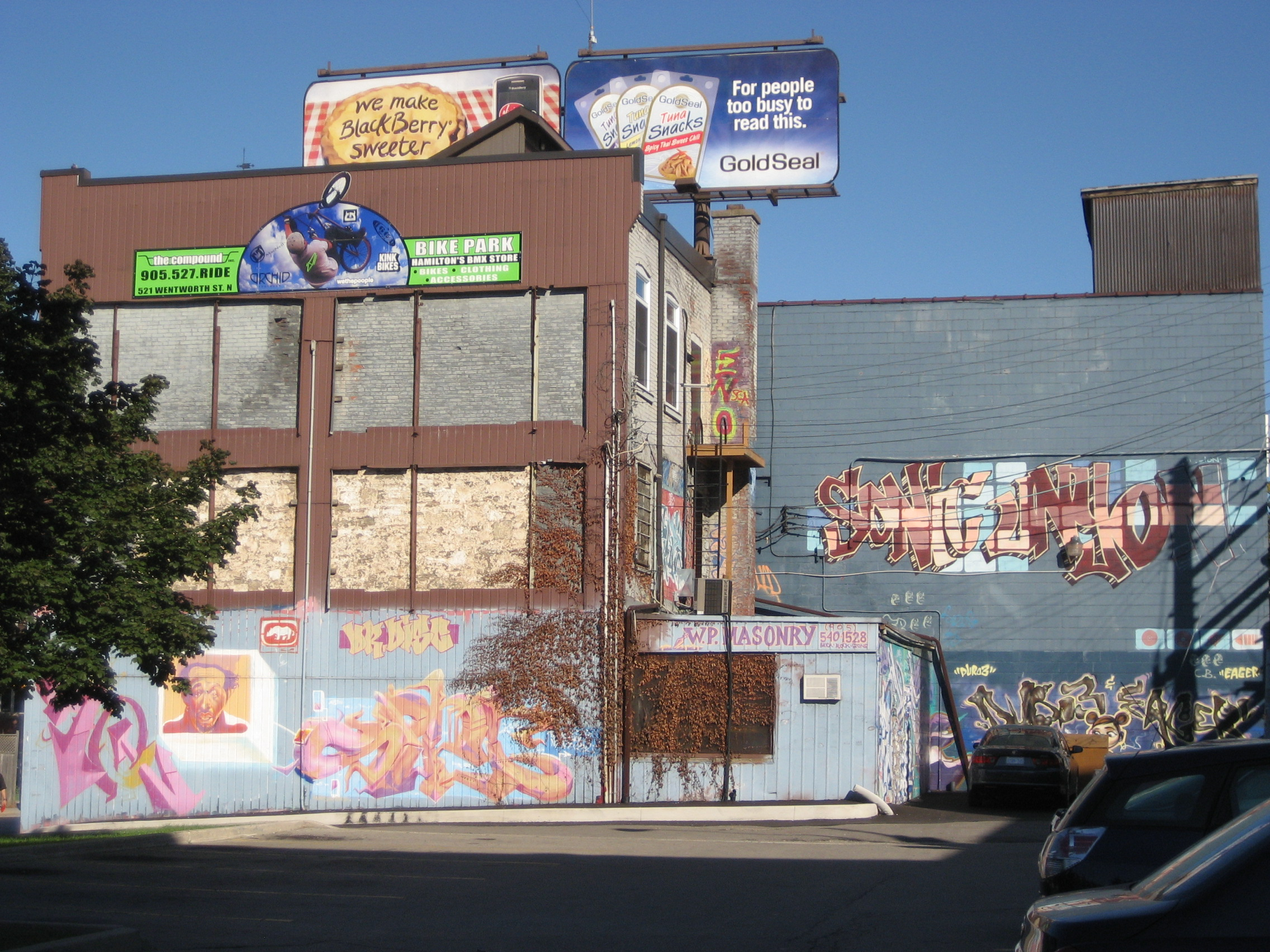 Wilson Street graffiti, back-end of Sonic Unyon Records building, Hamilton.